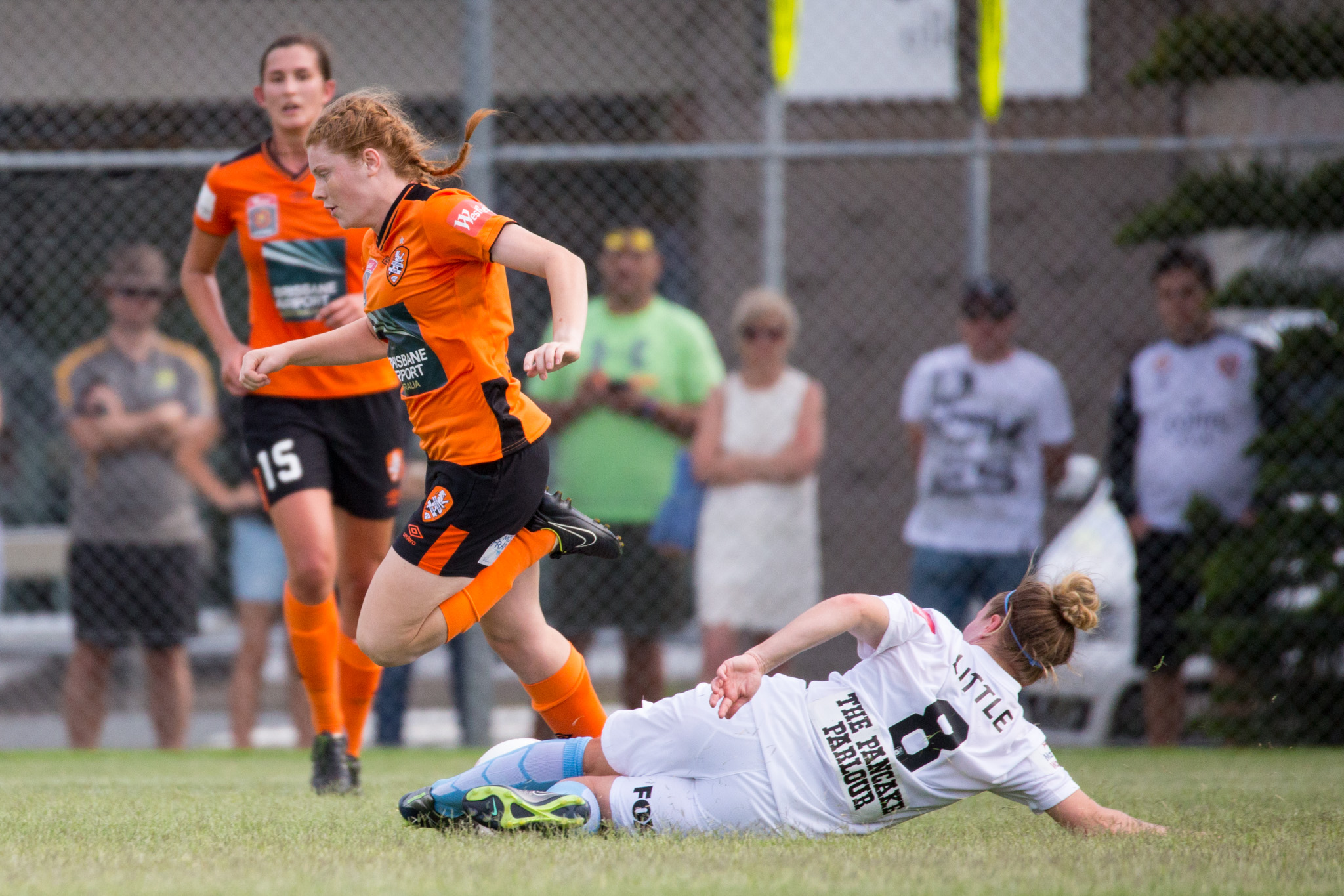 Kim Little and Courtney Vine